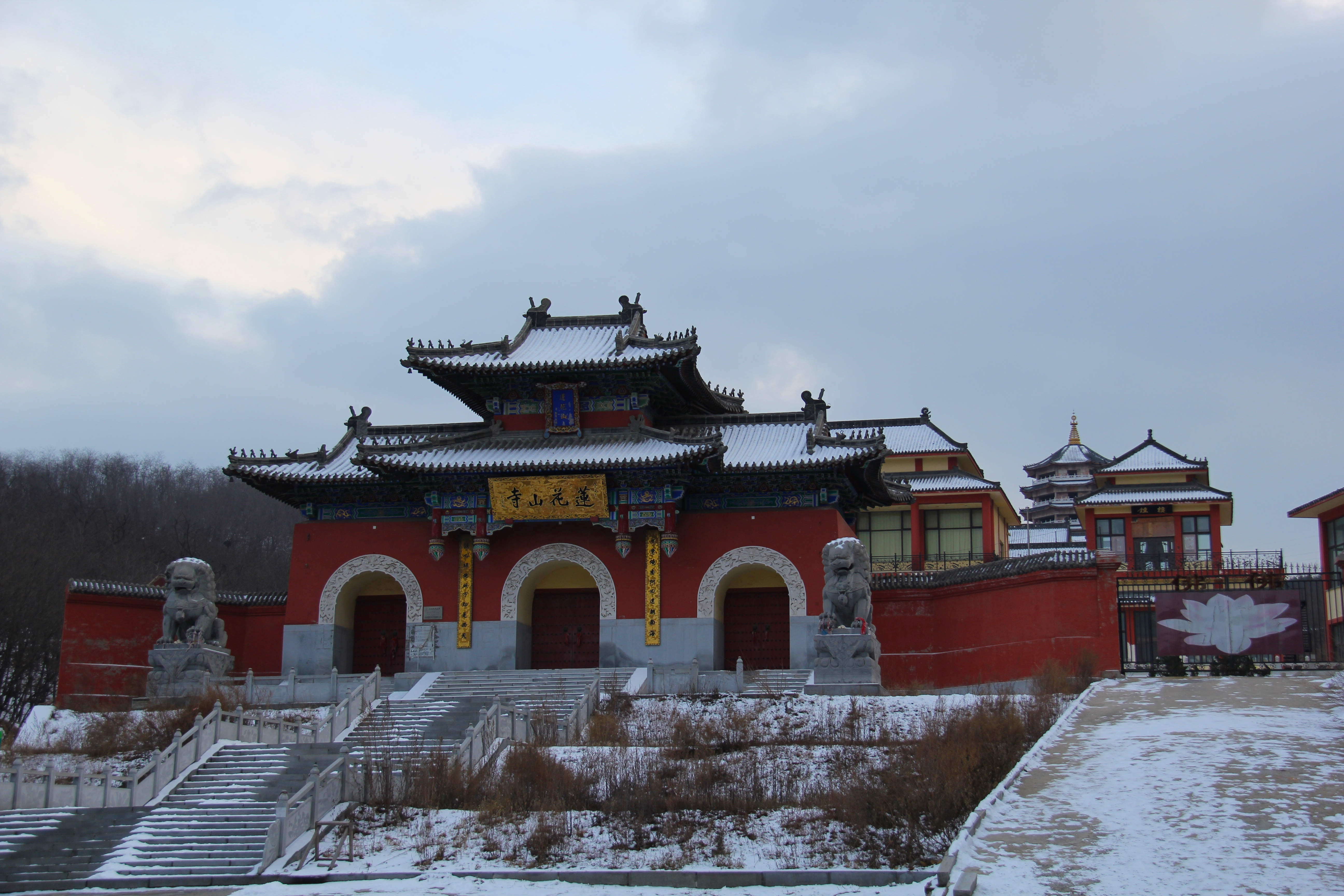 Lianhuashan ("Lotus Flower Mountain") Temple, Dalian, China